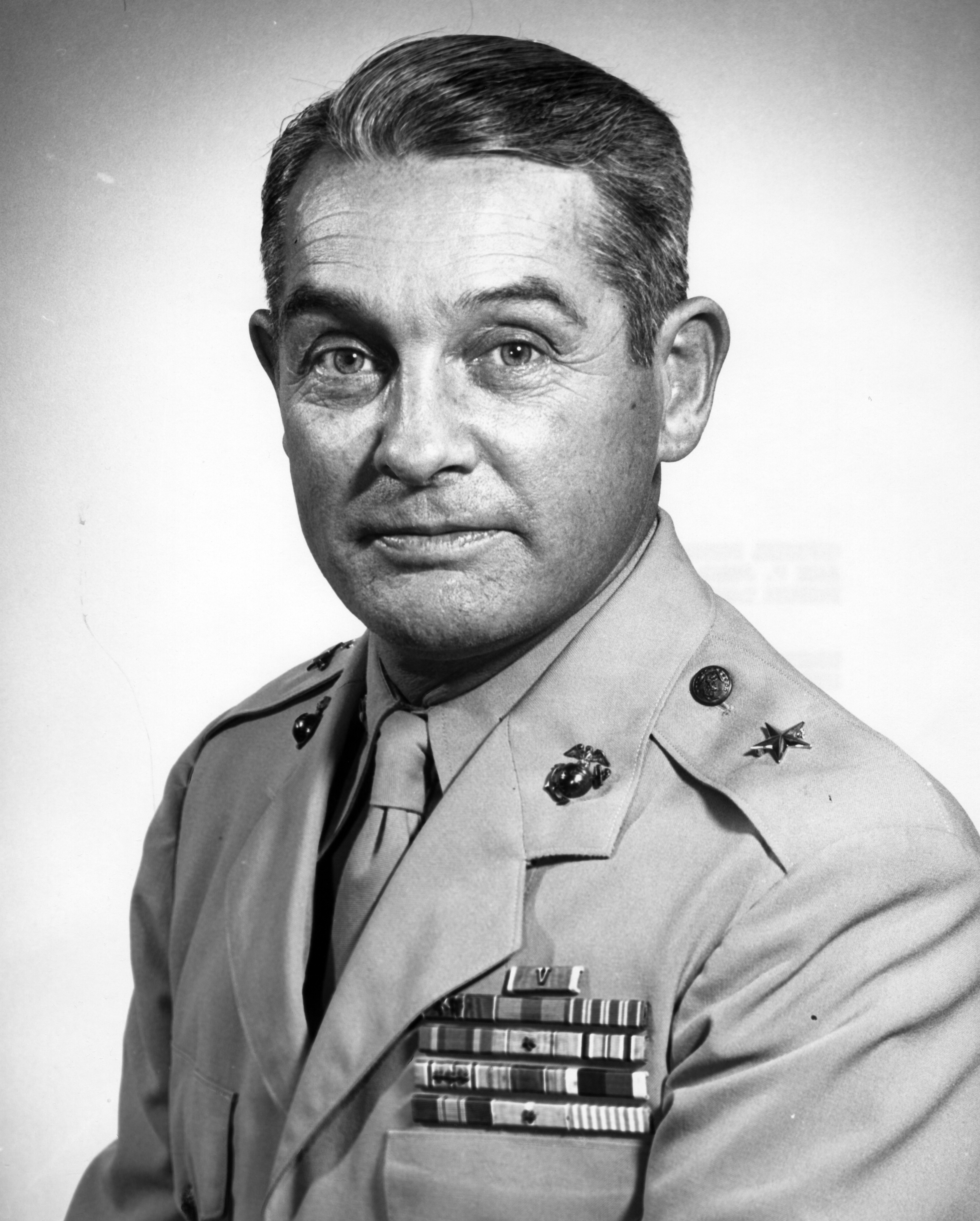 Jack Phillip Juhan (December 28, 1904 - February 24, 2002) was a decorated officer of the United States Marine Corps, who reached the rank of Major General. He is most noted for his service as Executive Officer of 8th Marine Regiment during Pacific War. Juhan later served as Commanding General of the Force Troops, Fleet Marine Force Atlantic and headed UN Personnel and Medical Processing Unit or 7th Marine Regiment during Korean War.